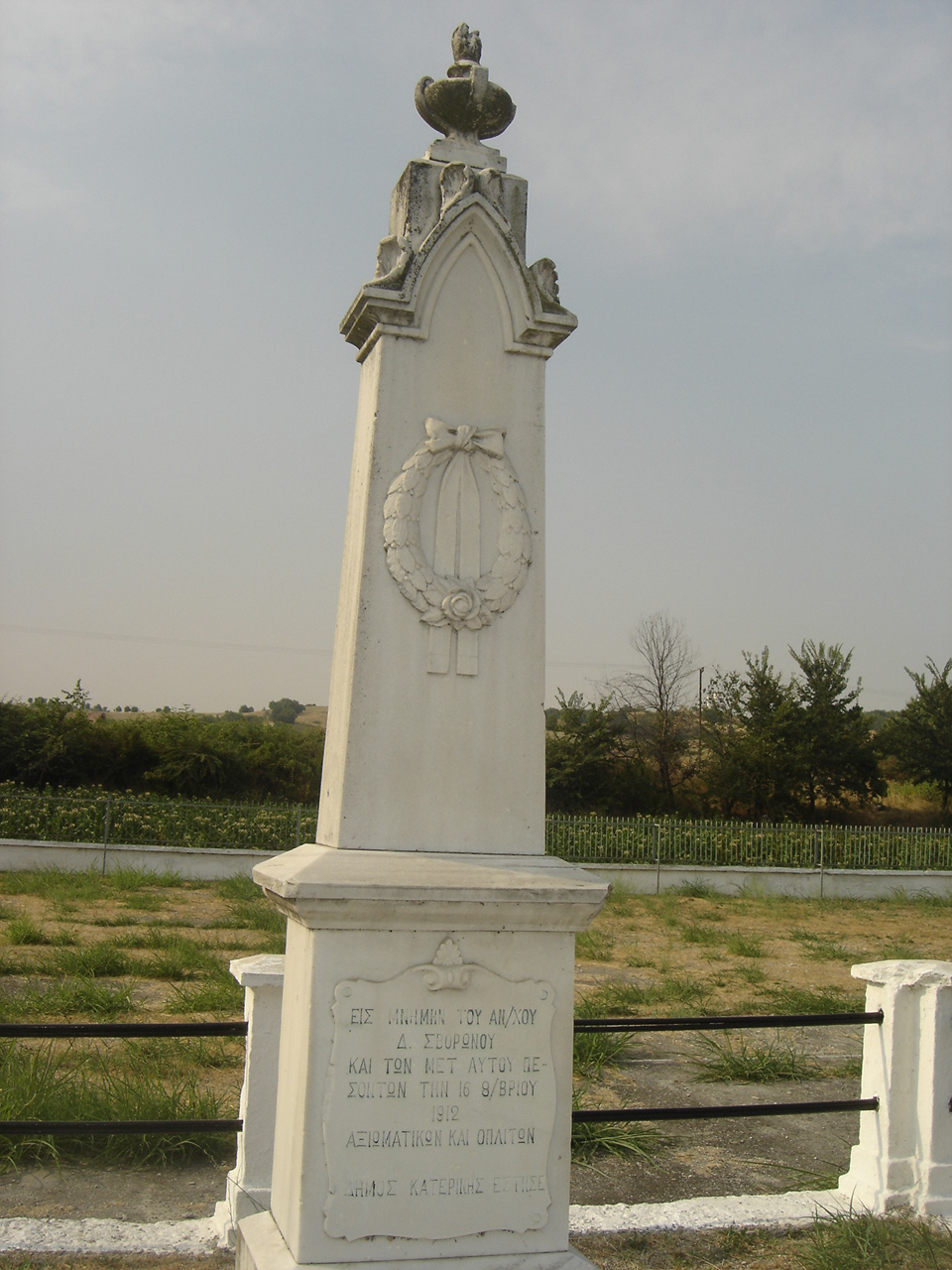 Memorial plaque for people killed in Svoronos in 1912.